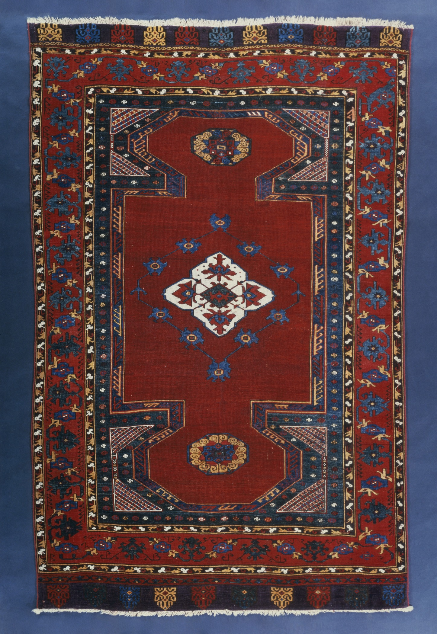 Turkey, Anatolia, Konya region, 1650-1750 Textiles; carpets Knotted wool pile on wool foundation Gift of the 2004 Collectors Committee (M.2004.32) Costume and Textiles